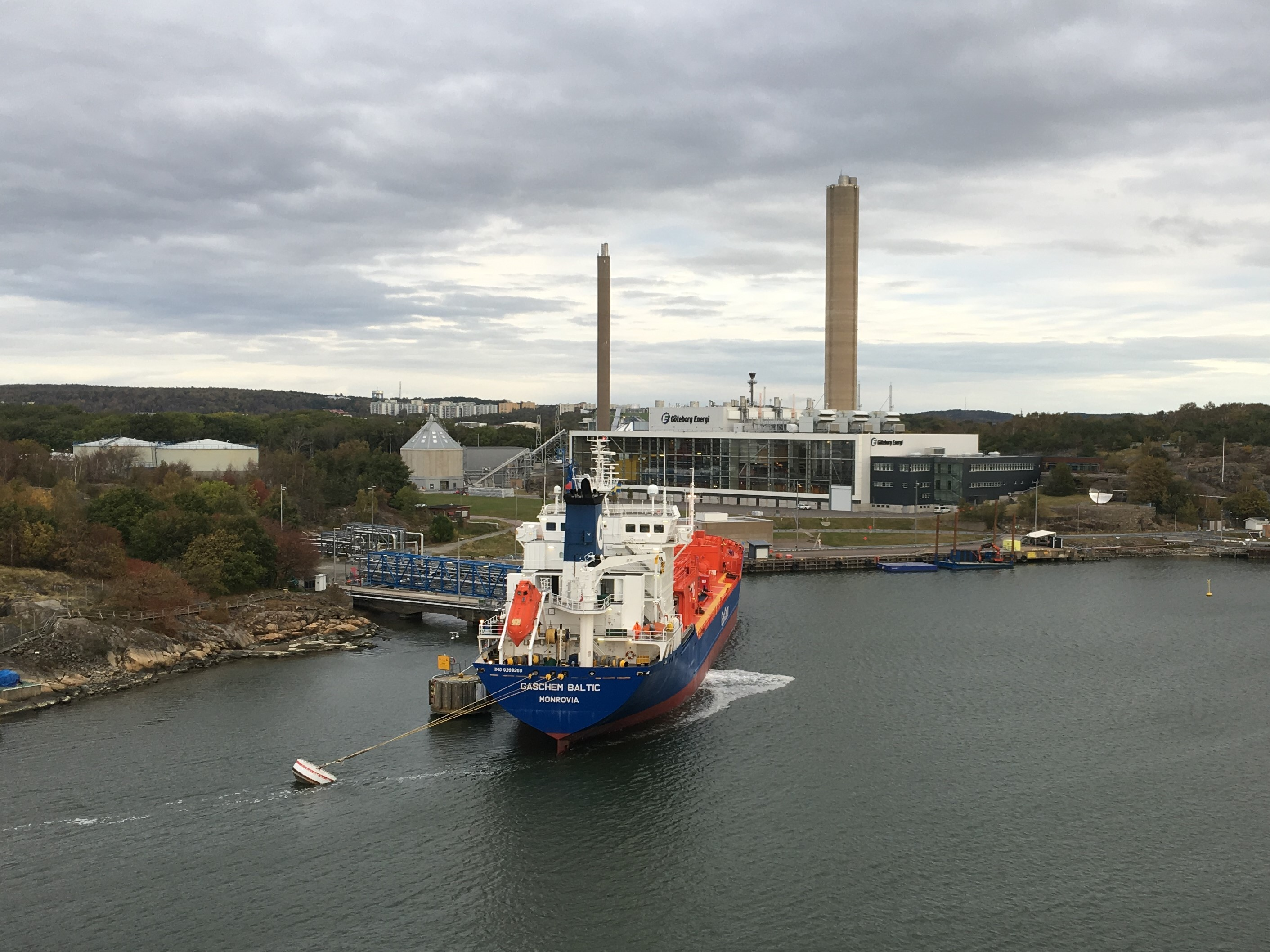 "Rya" heating power plant in Gothenburg, at the Hisingen island in the west of the city. Gas/chemical tanker loading to the left.